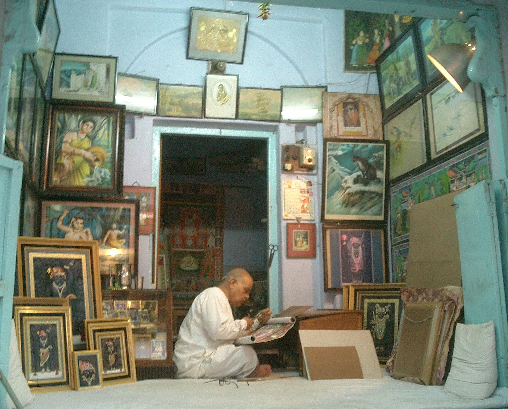 Sitting amidst his painting, he creates magic with his brushes painting Lord Krishna woven in golden threads and brilliant hues. His small shop, also his studio and home in temple town of Nathdwara, holy place revered in glory of ShriNathji, Krishna is believed to have stopped by here on his journey from Mathura to Dwarka.